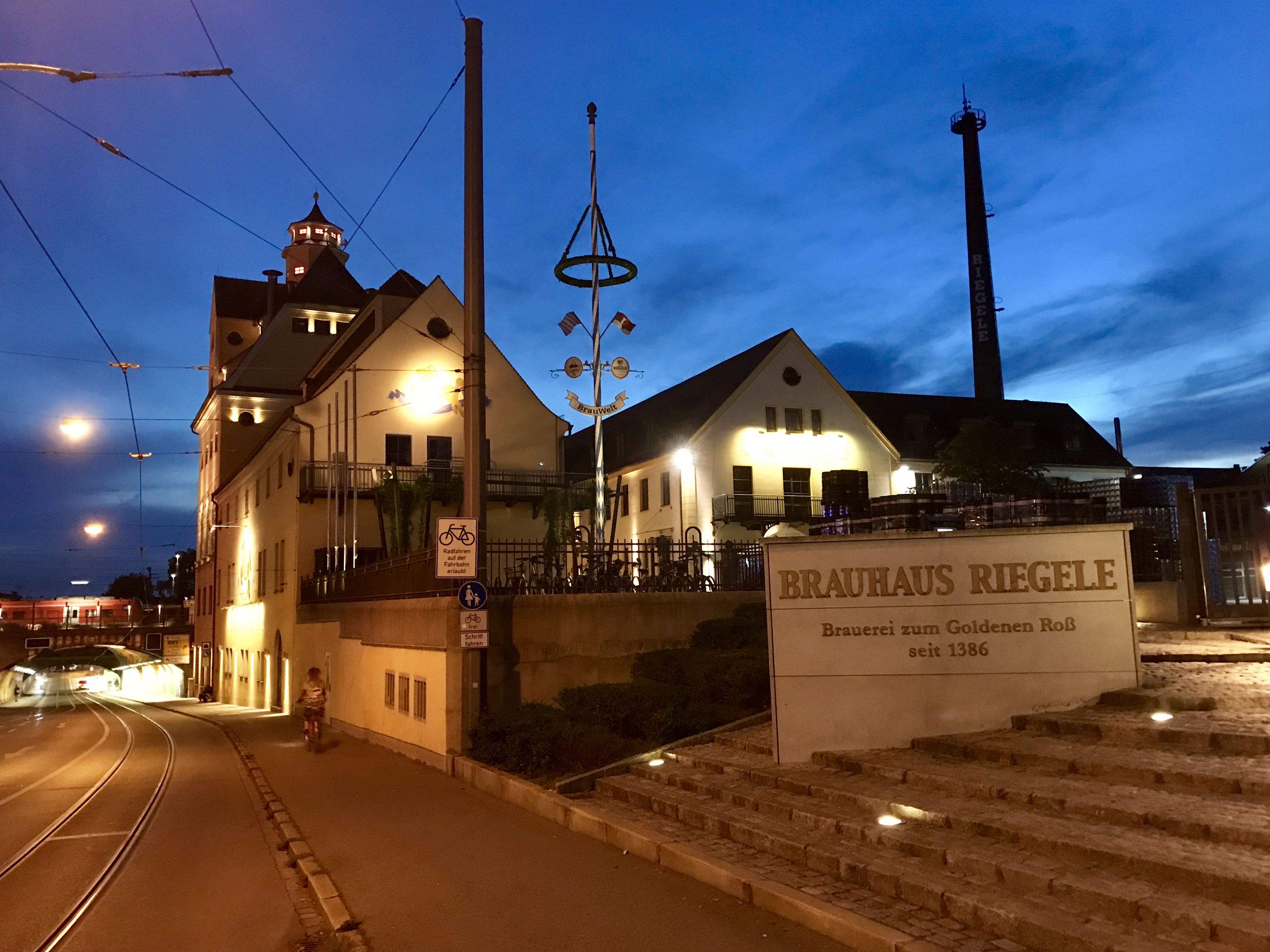 Cycling in Bavaria, street with tram-line-tracks under railway line near Augsburg main station with some people walking on the sidewalk. Building of a brewery (Riegele) in blue hour colors. At that time (2019, evening) not much traffic with cars.